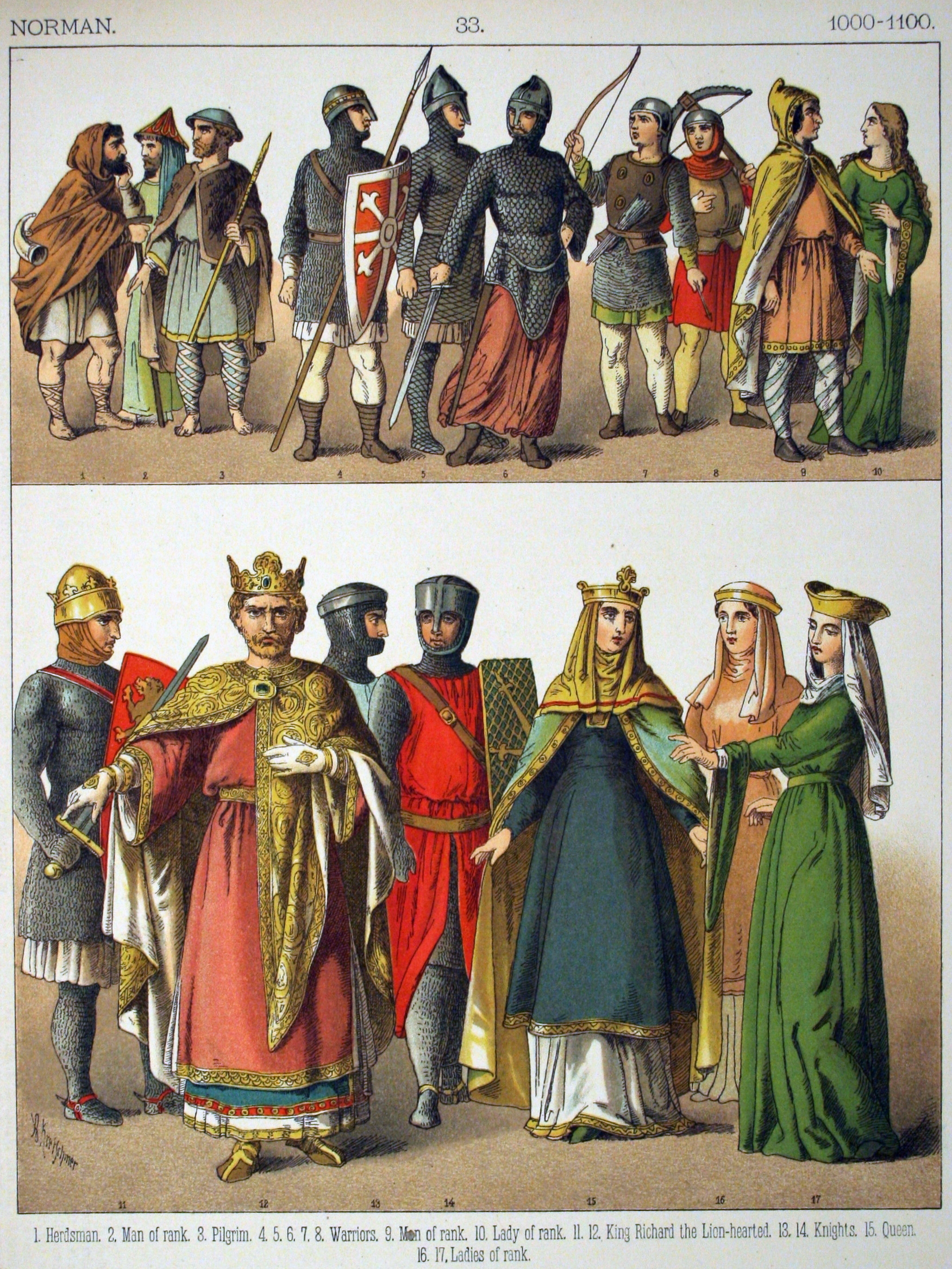 1000-1100, Norman